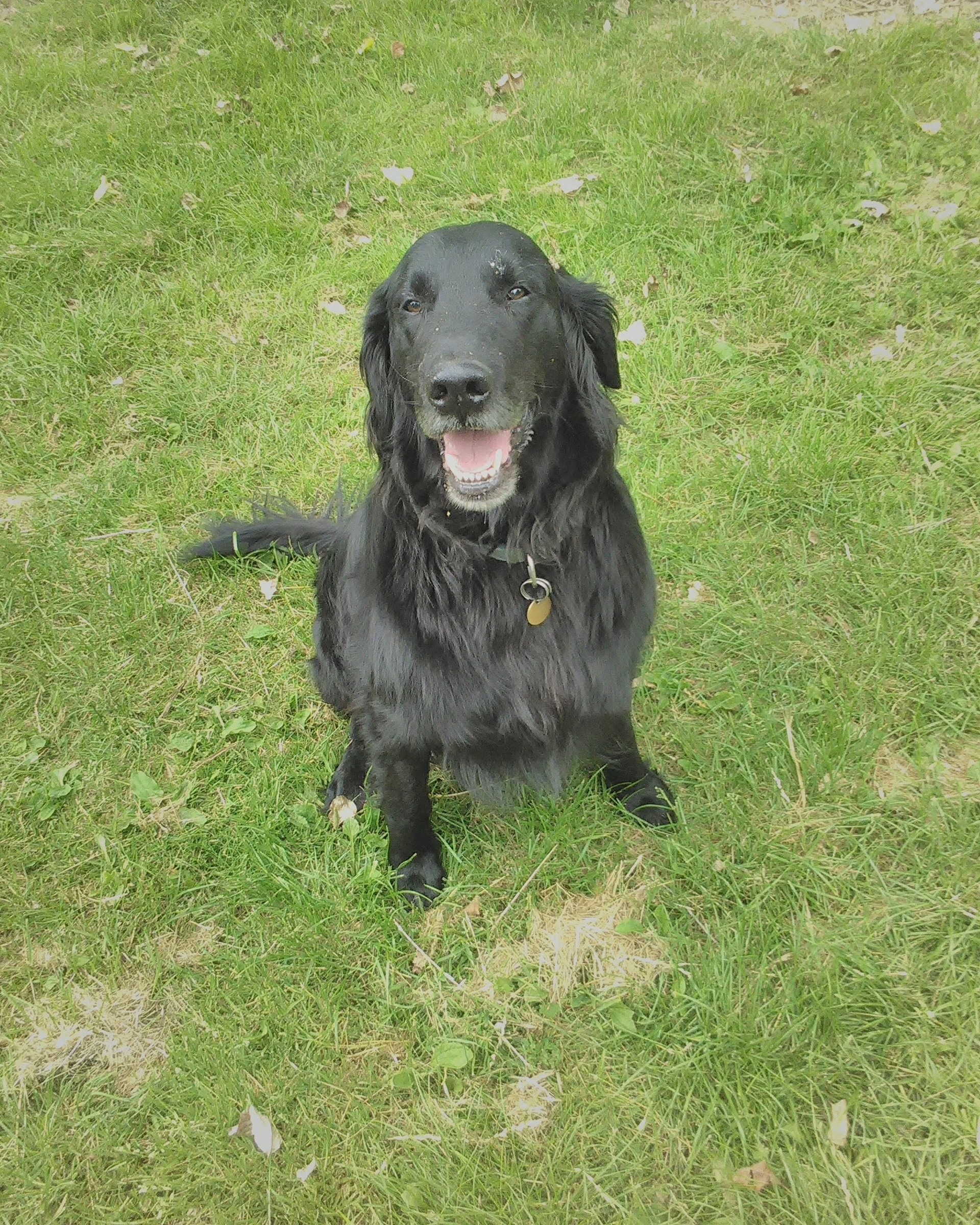 A male 7-year-old Flat Coated Retriever on a walk in England.